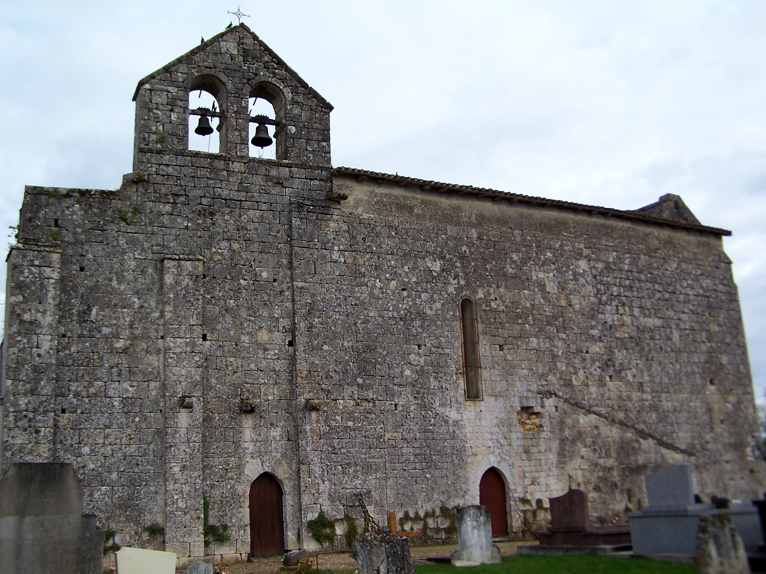 Saint-Eutropius church of Bellefond (Gironde, France)